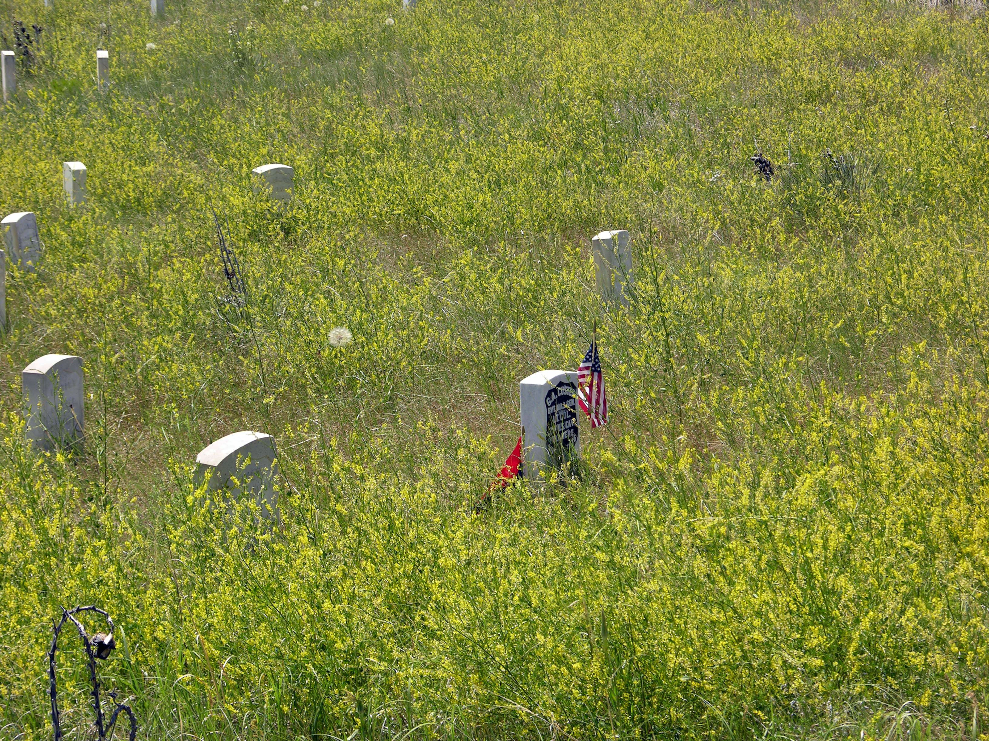 Custer's Markstone at the Little Bighorn Battlefield